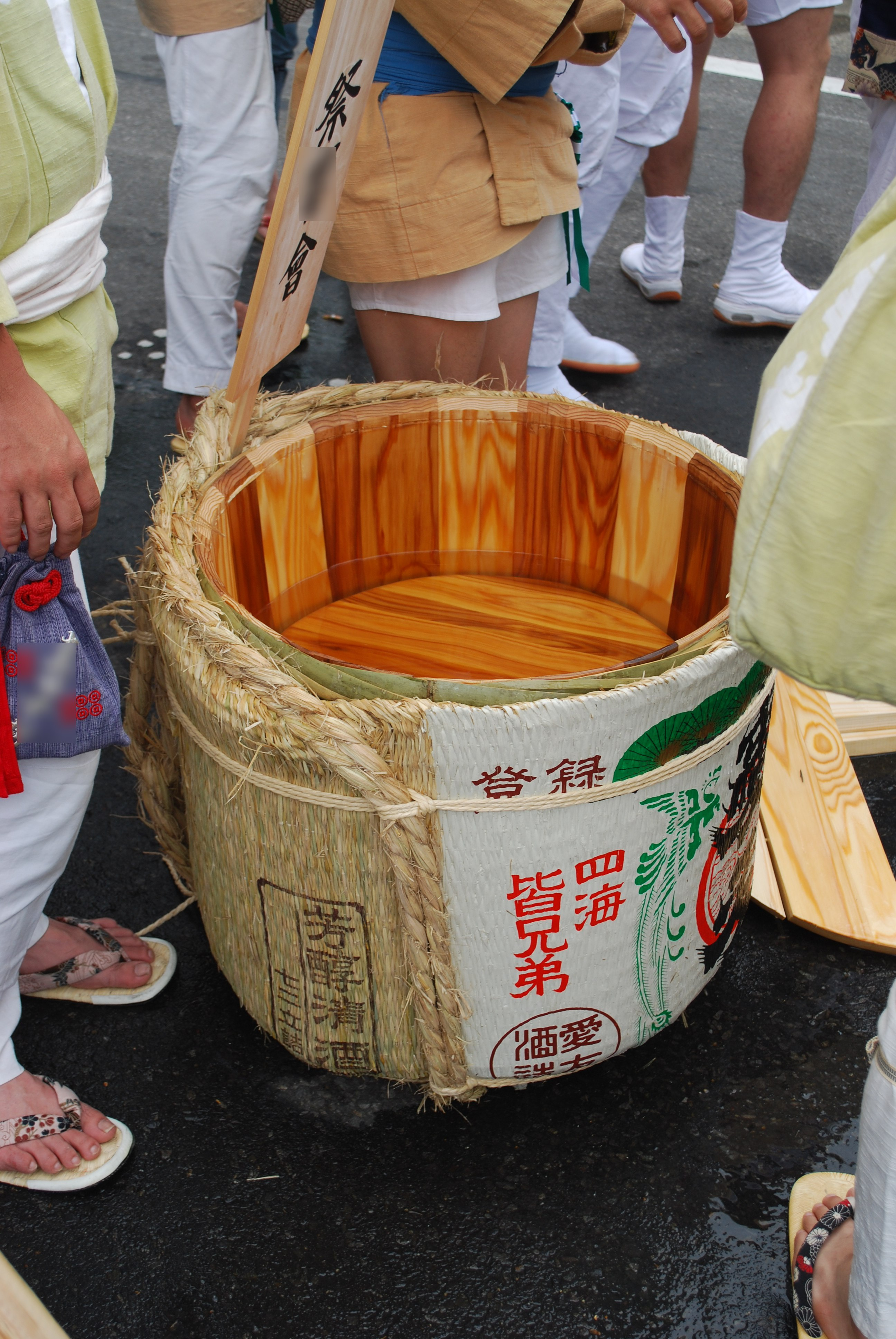 Sake barrels,"Saka-daru",Itako-city,Japan. Behavior liquor at the time of the festival.